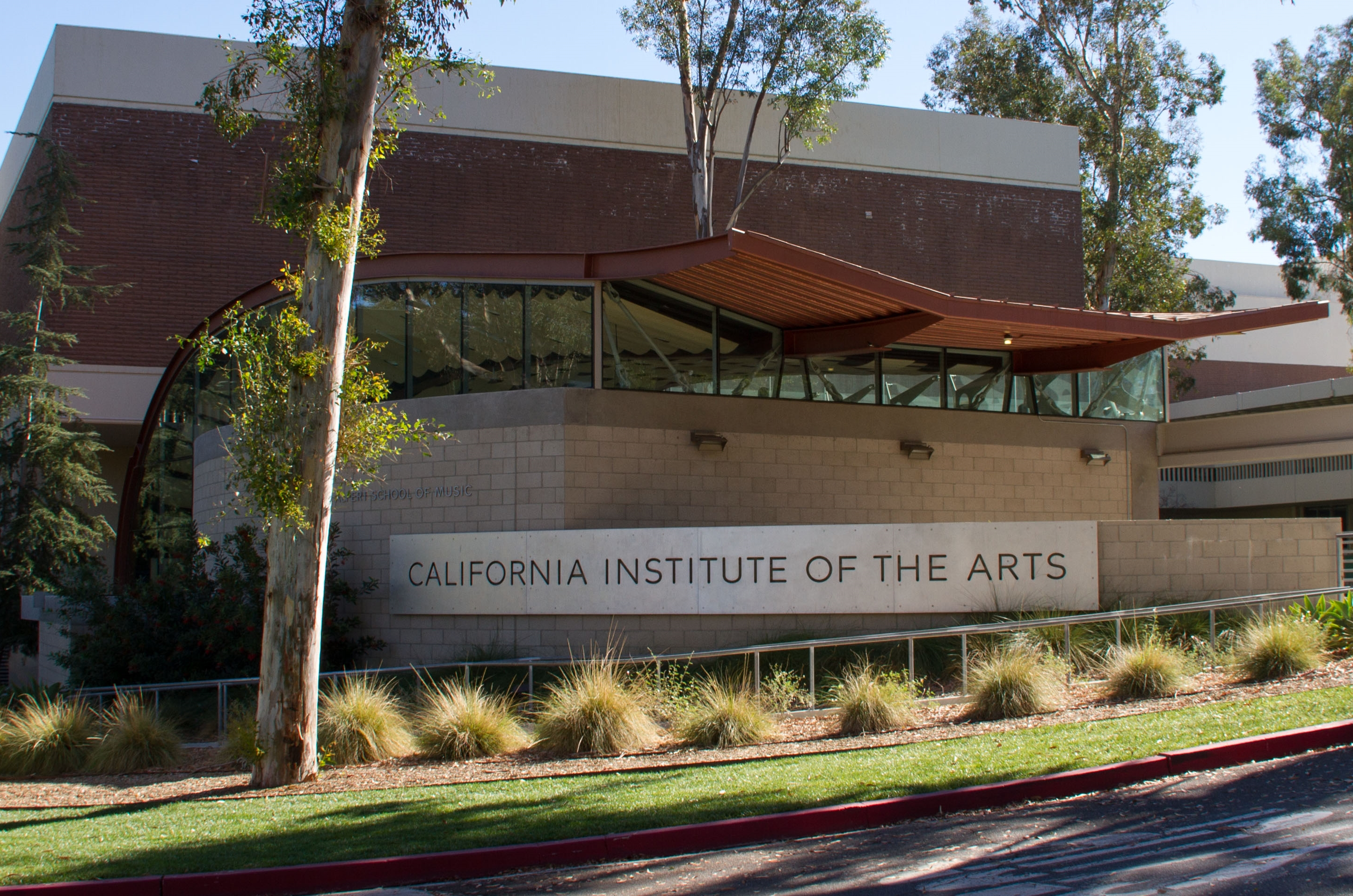 CalArts, Valencia, California, USA.